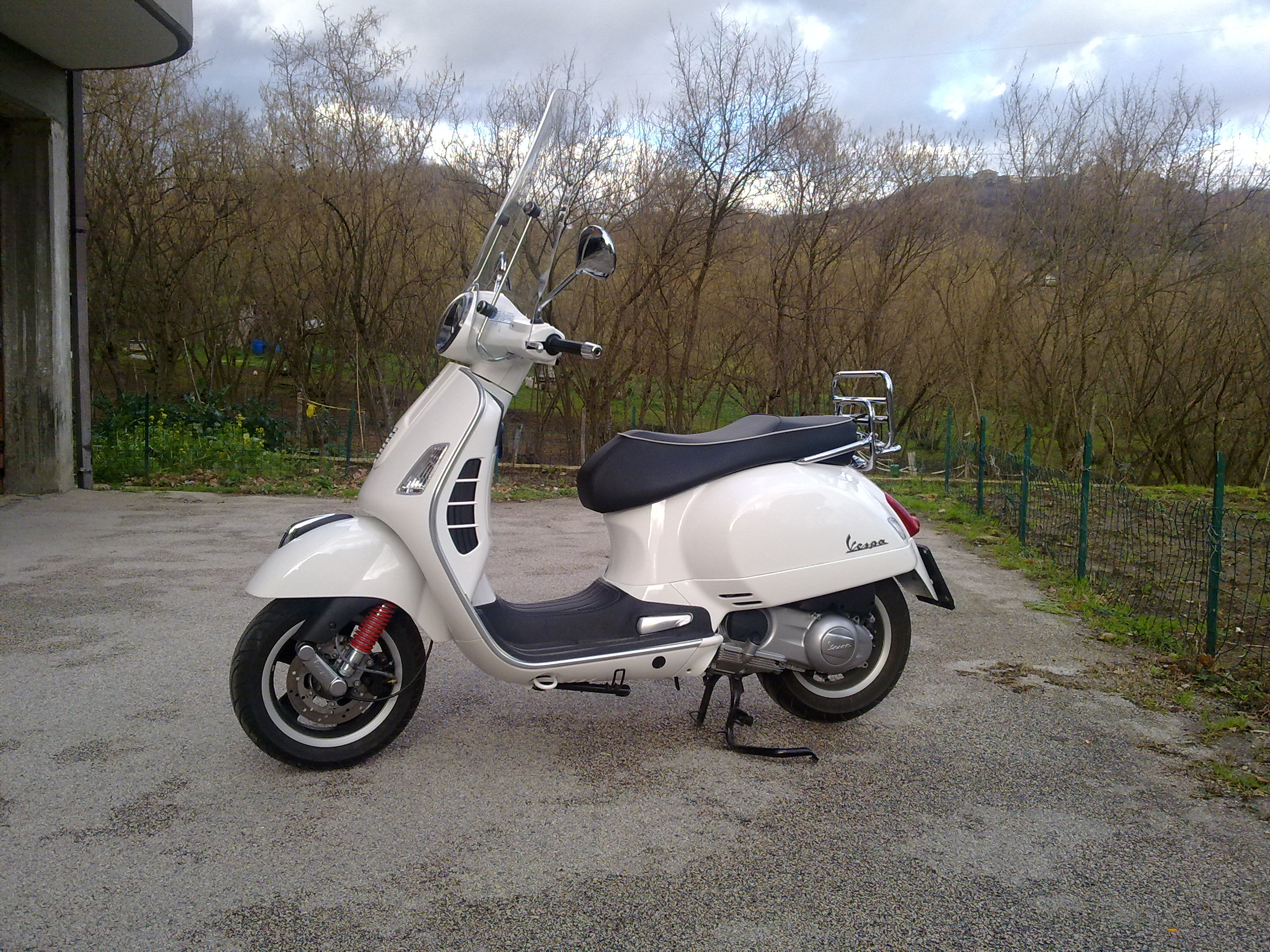 Vespa GTS 300 Super in Montebianco color, with rear rack, windscreen and floor-mat